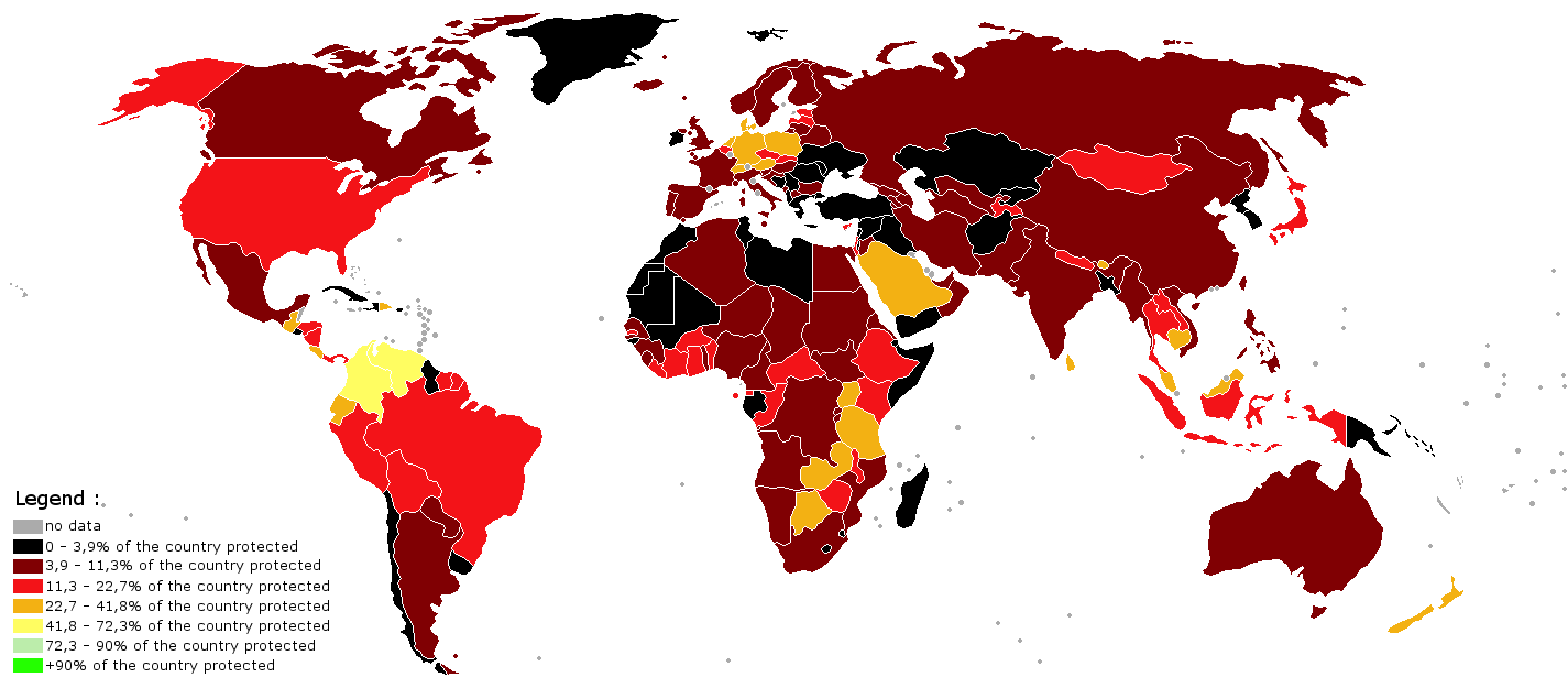 World map indicating the percentage of the country under protection. The map was made using the BlankMap-World-V6 and the data from 2005 AD from this map made by Kyle Dietrich. Note that the map does use much gap difference between the colors; perhaps a better map can be made in time using this data